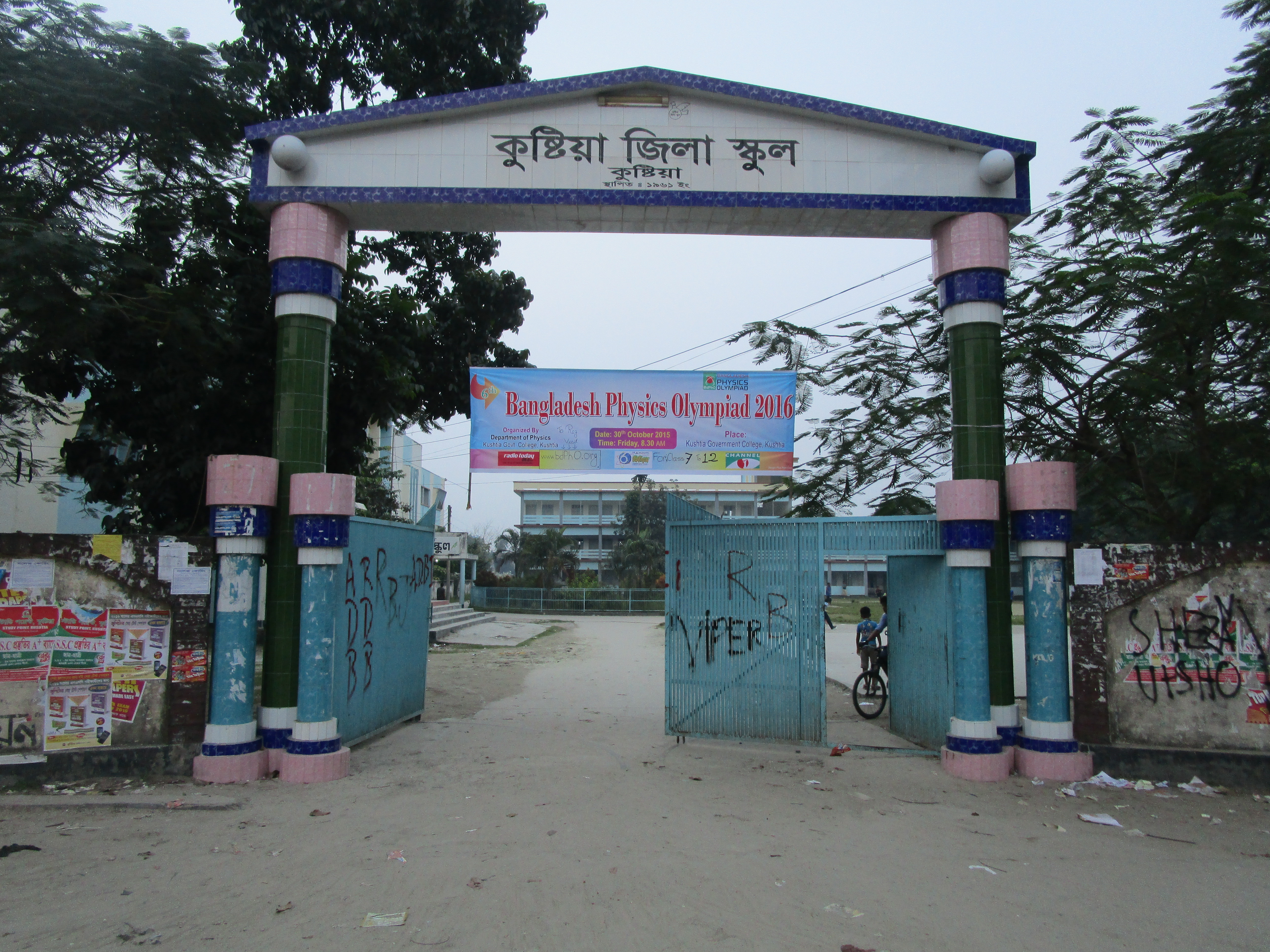 The Gate of Kushtia Zilla School.